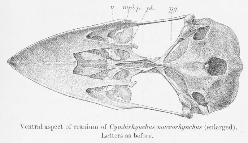 Skull of a broadbill